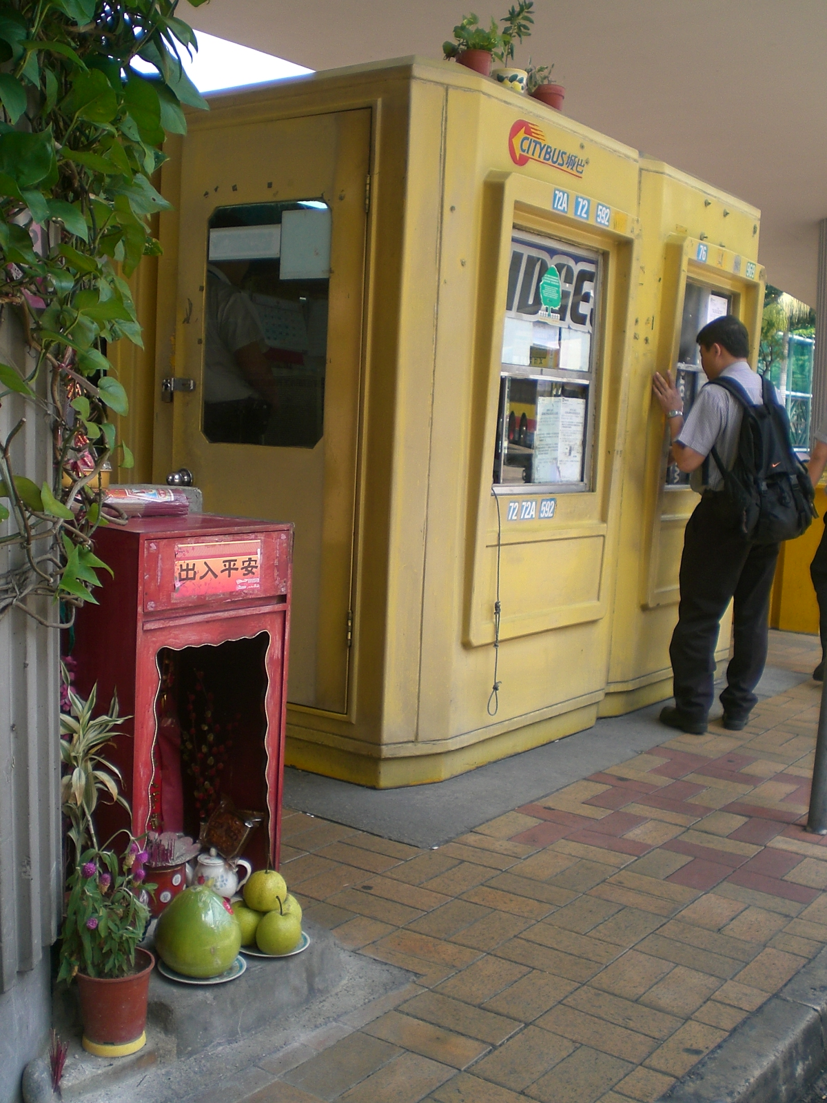 銅鑼灣銅鑼灣 (摩頓台) 巴士總站辦公亭, 及財神土地神